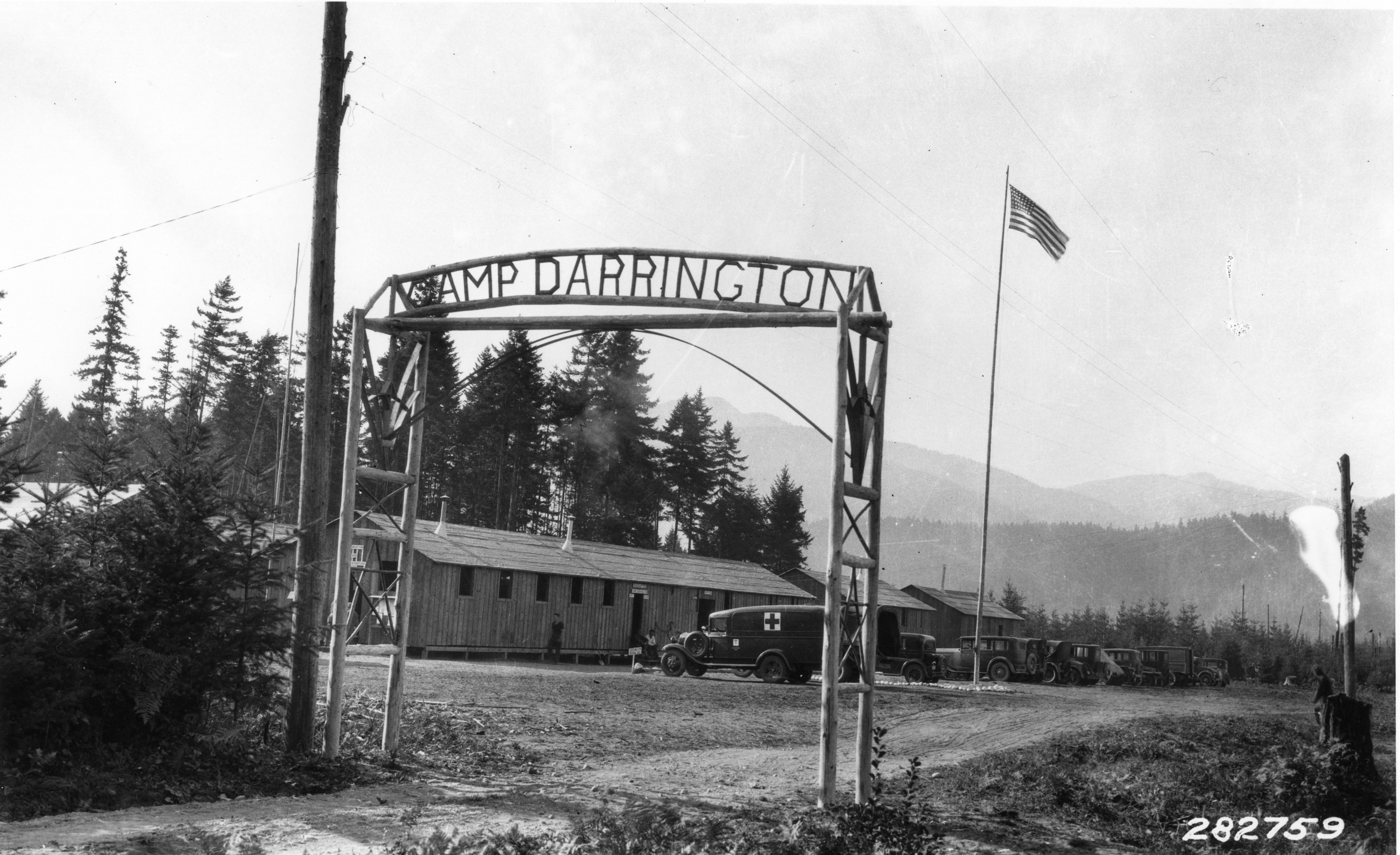 Entrance to Camp Darrington CCC Camp, Mt. Baker National Forest, Washington USFS photo #282759 Original Form: Gelatin silver prints Original Collection: Gerald W. Williams Collection Collection series: Civilian Conservation Corps album